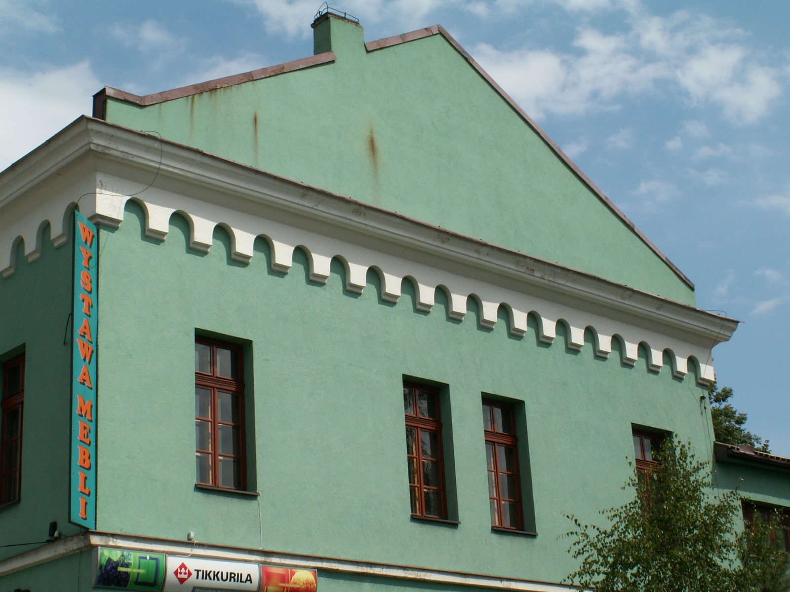 Synagogue in Kalwaria Zebrzydowska